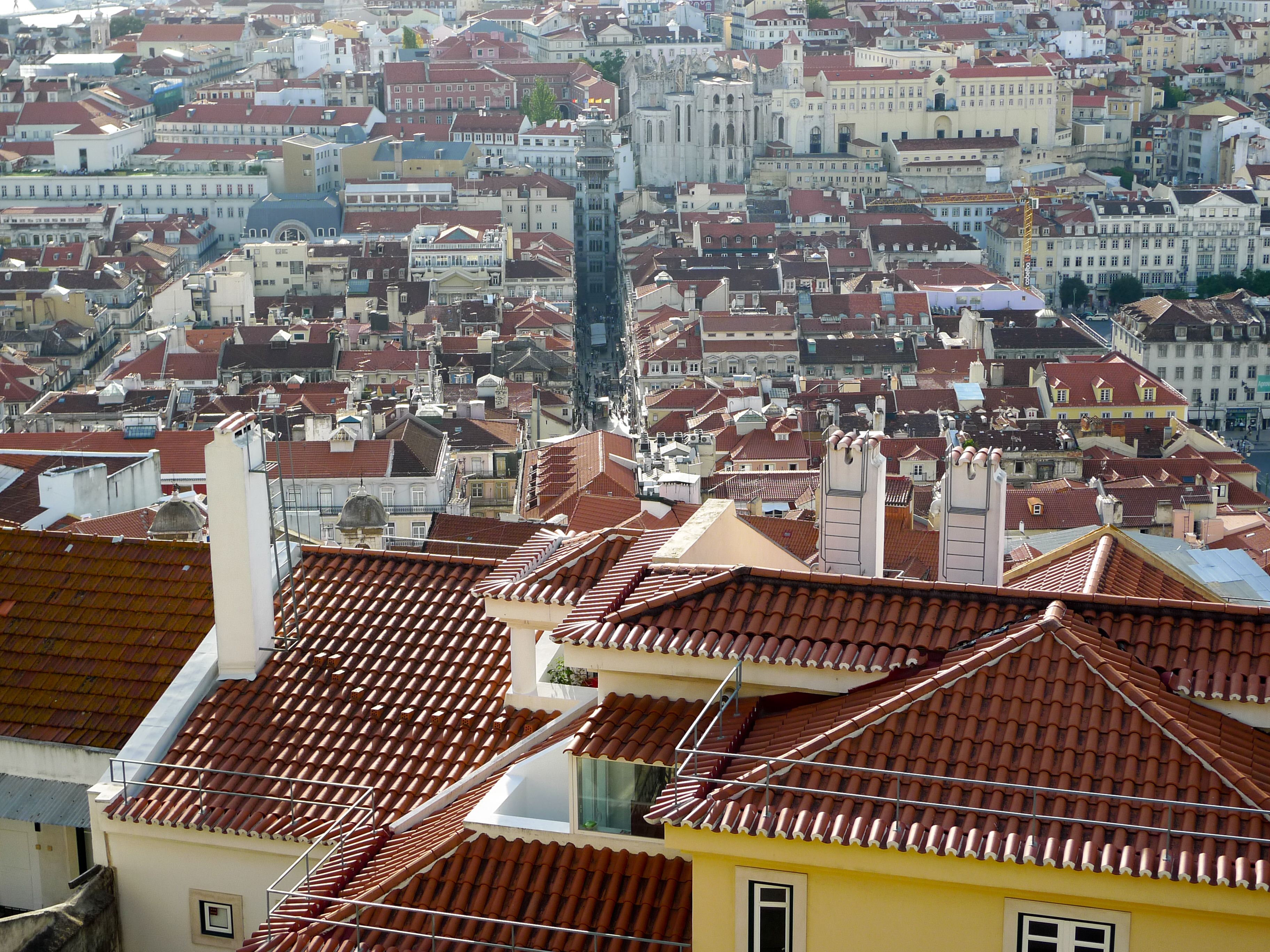 Elevador of Santa Justa from castle